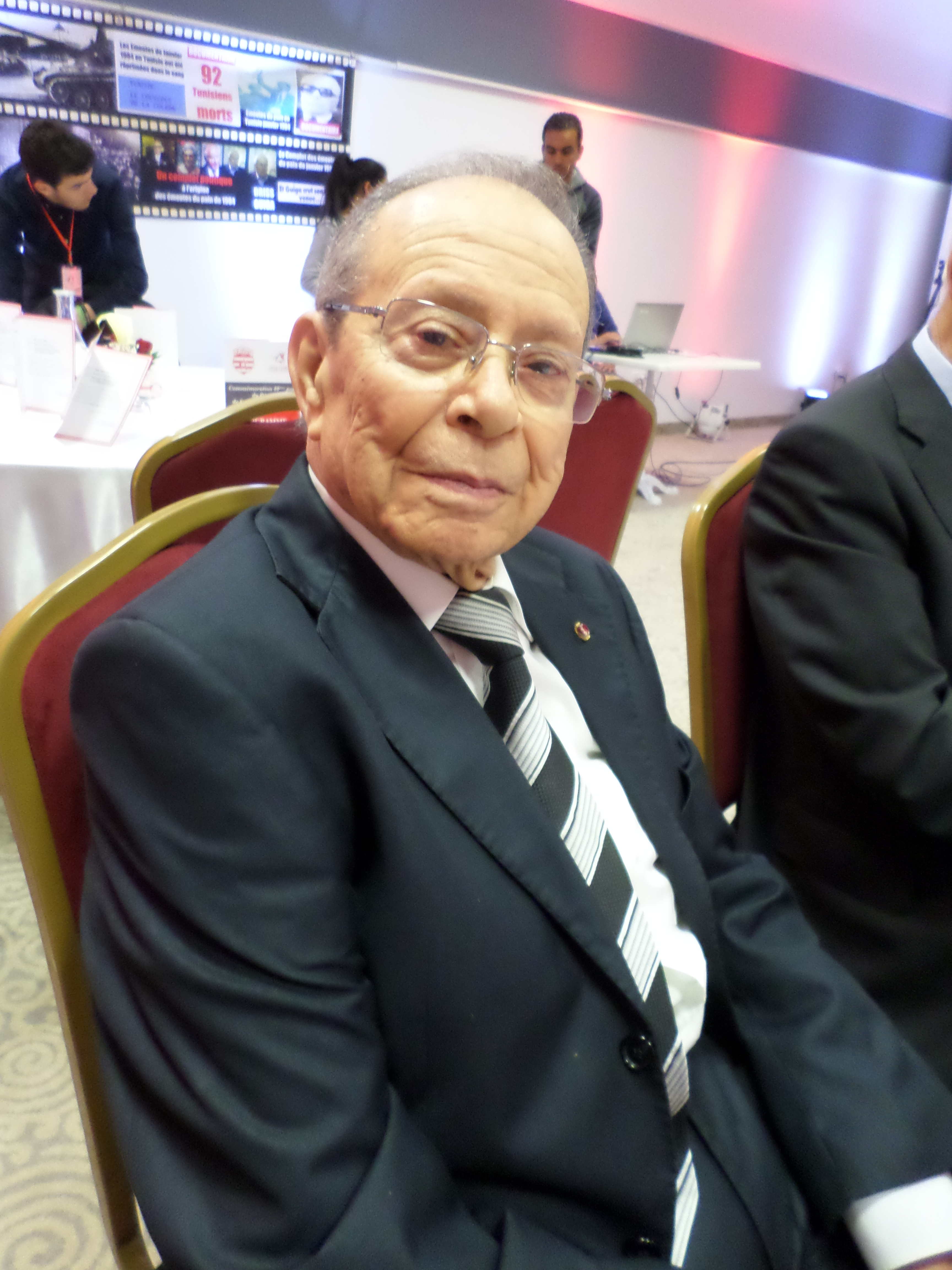 Hamed Karoui (1927- ), Tunisian prime minister 1989-1999